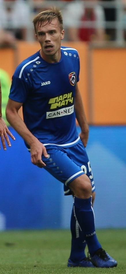 Pavel Karasyov with FC Tambov in a game against FC Spartak Moscow.